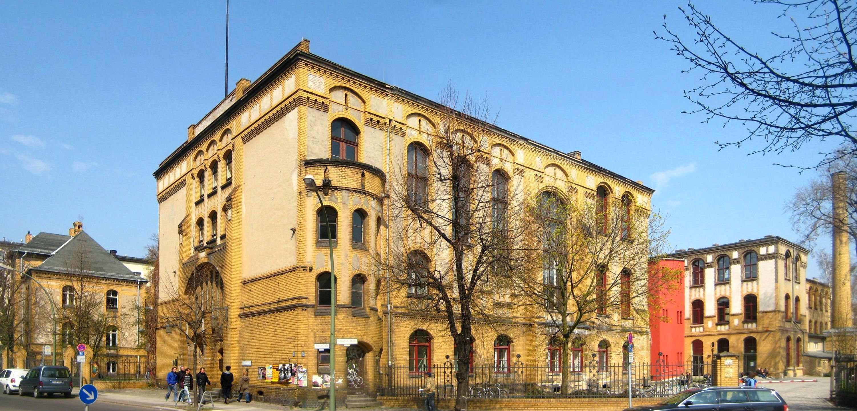 Former chemical institute of Humboldt University at Hessische Straße No. 1-2 in Berlin-Mitte. The building complex was constructed as 1st Chemical Institute of the University Berlin from 1899 to 1900 to a design by the architects Georg Thür and Max Guth. It has been deidacted as a historic landmark.